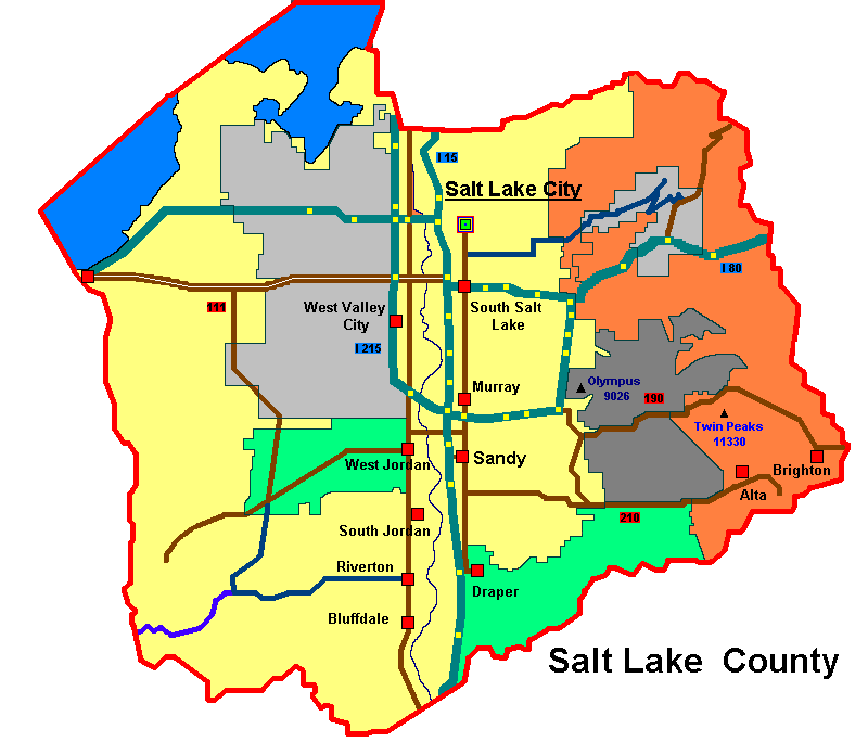 Salt Lake County (UT) Details, selfmade graphic by R.Blauert Dk4hb